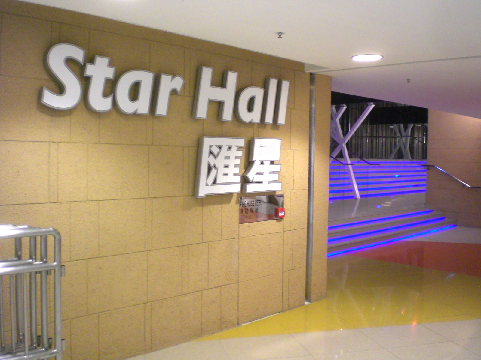 Theater@香港國際展貿中心